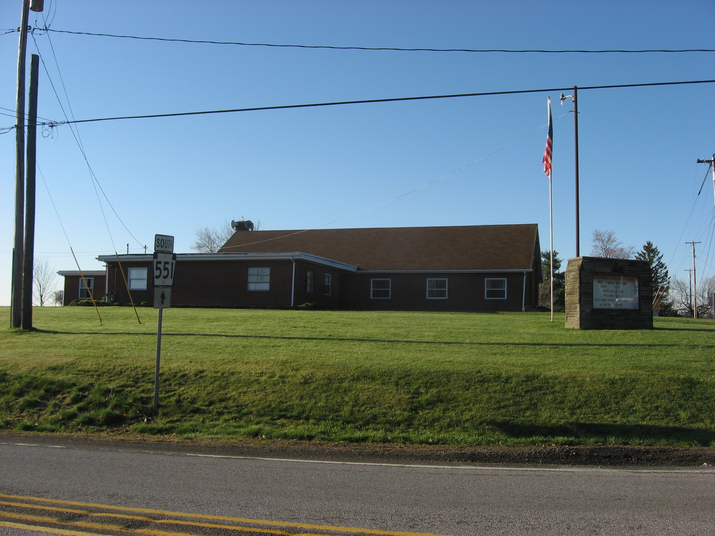 First Primitive Methodist Church of Beaver Falls, located at 1154 Shenango Road (Pennsylvania Route 551) in Big Beaver, Pennsylvania, United States. Church profile.